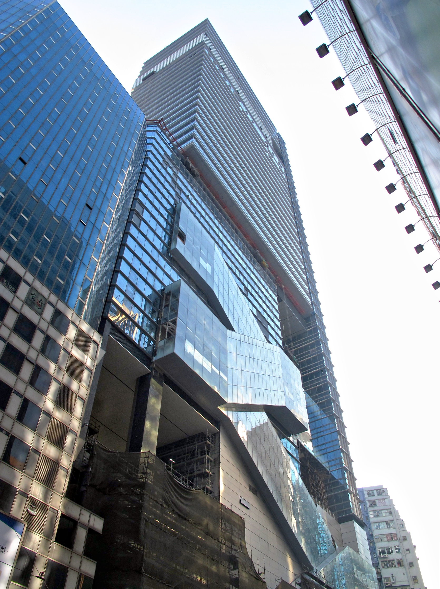 Hysan Place 希慎廣場